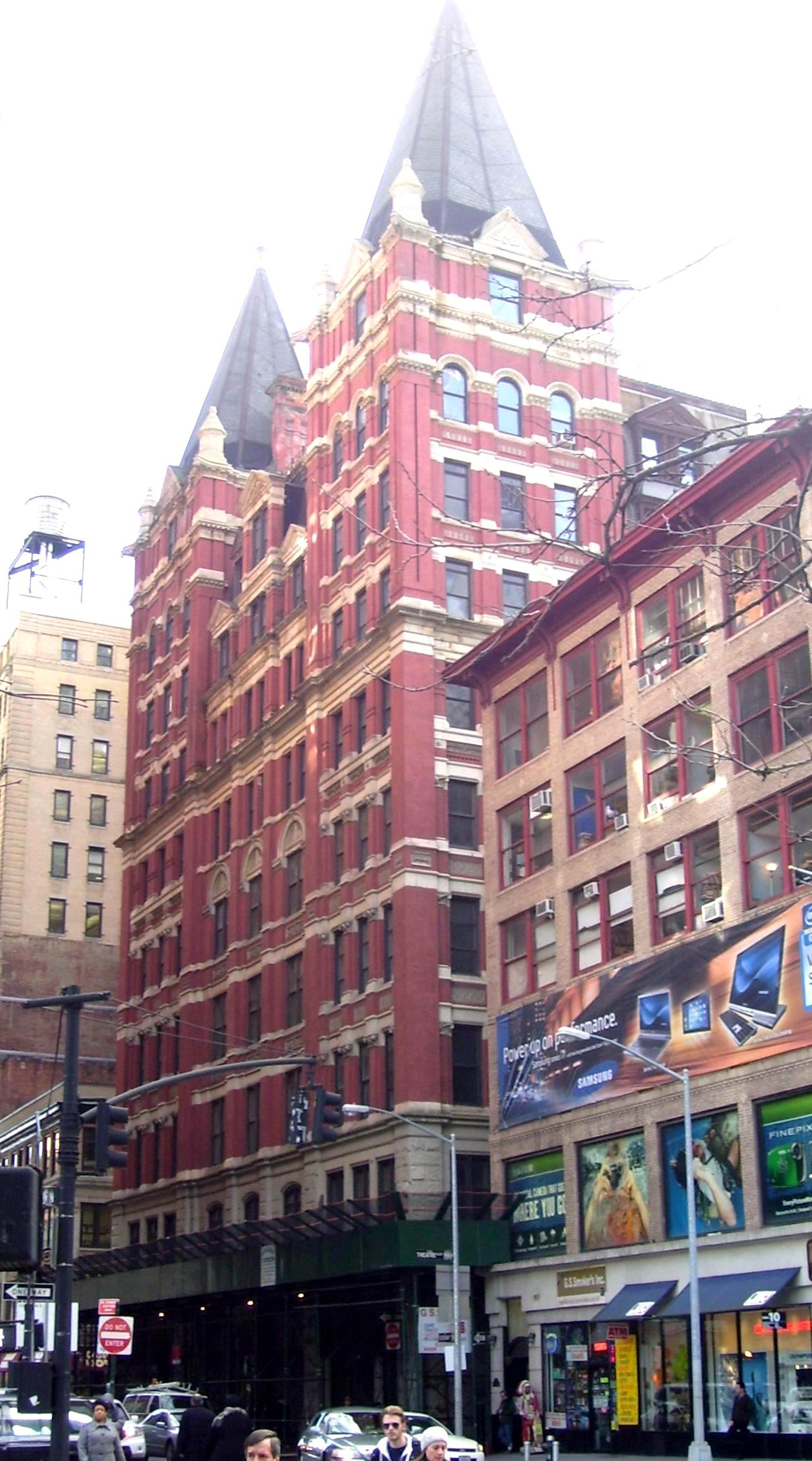 The Temple Court Building at 3-9 Beekman Street between Theater Alley and Nassau Street in the Civic Center neighborhood of Manhattan, New York City was built in 1881-83 and was designed by Silliman & Farnsworth in a combination of the Queen Anne, neo-Grec and Renaissance Revival styles. The Annex was built in 1889-90 and was designed by James M. Farnsworth. It is one of New York City's oldest tall office buildings, and was designated a NYC landmark in 1998. (Source: Guide to NYC Landmarks (4th ed.))